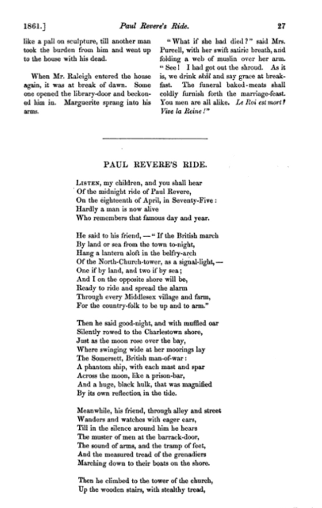 1861 issue of The Atlantic Monthly which features the first publication of Henry Wadsworth Longfellow's poem "Paul Revere's Ride," seen in this image. Note: Image touched up - removed pencil markings.